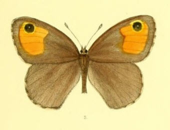 Paralasa mani